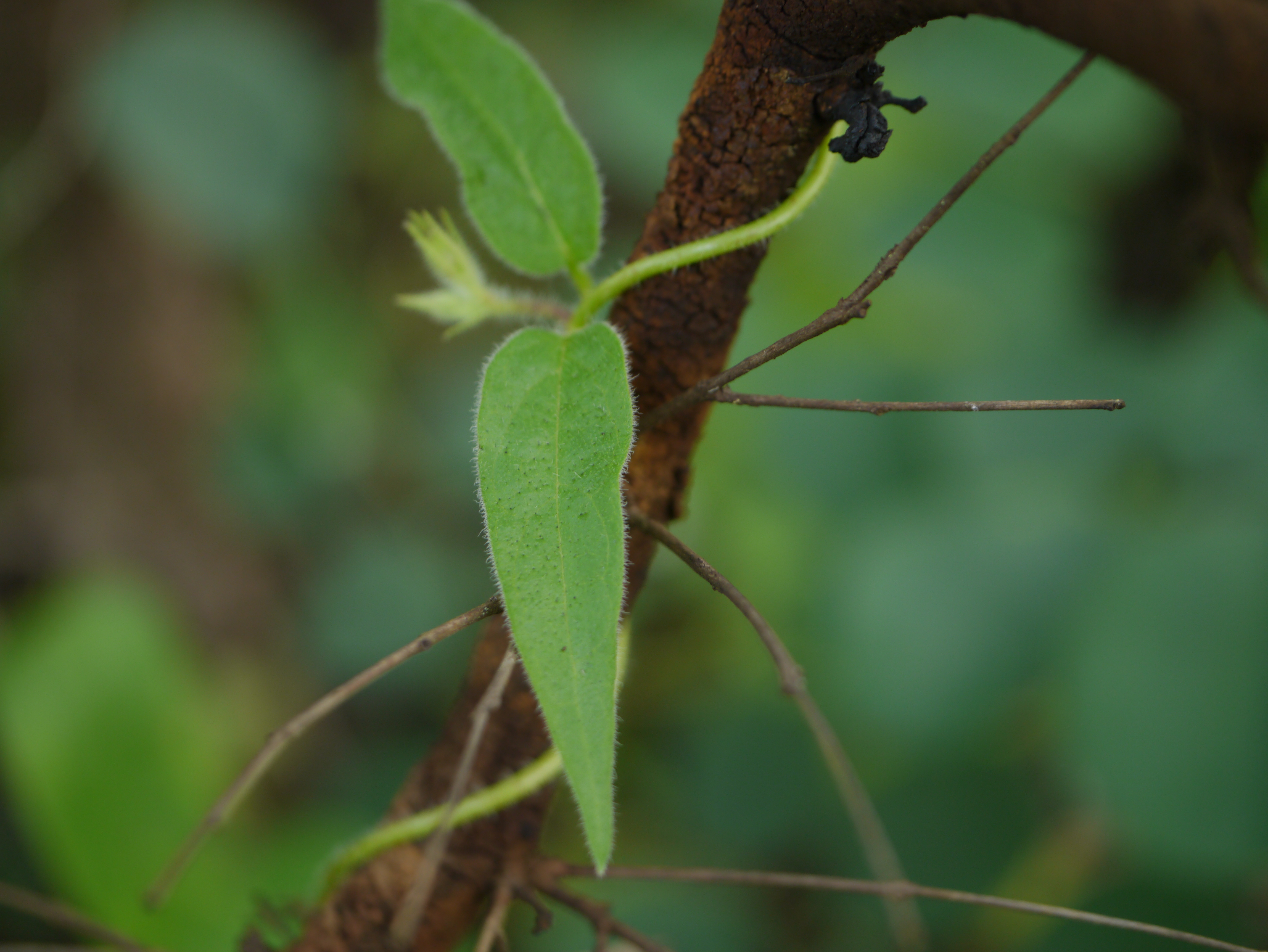 Asclepiadaceae (milkweed family) » Ceropegia hirsuta Wight & Arn. seer-oh-PEEJ-ee-uh -- from the Greek keros (wax) and pege (fountain) ... Dave's Botanary her-SOO-tuh -- hairy ... Dave's Botanary commonly known as: hairy ceropegia • Marathi: हमाना hamana • Telugu: ¿ ఎర్రగడ్డ ? erragadda, ¿ పాముతీగ ? pamutiga Native to: peninsular India, Thailand References: Flowers of India • The Ceropegia Lexicon • Flowers of Sahyadri by Shrikant Ingalhalikar